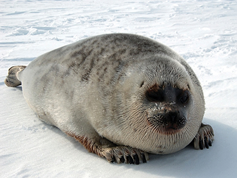 Ringed Seal Pusa hispida hispida.